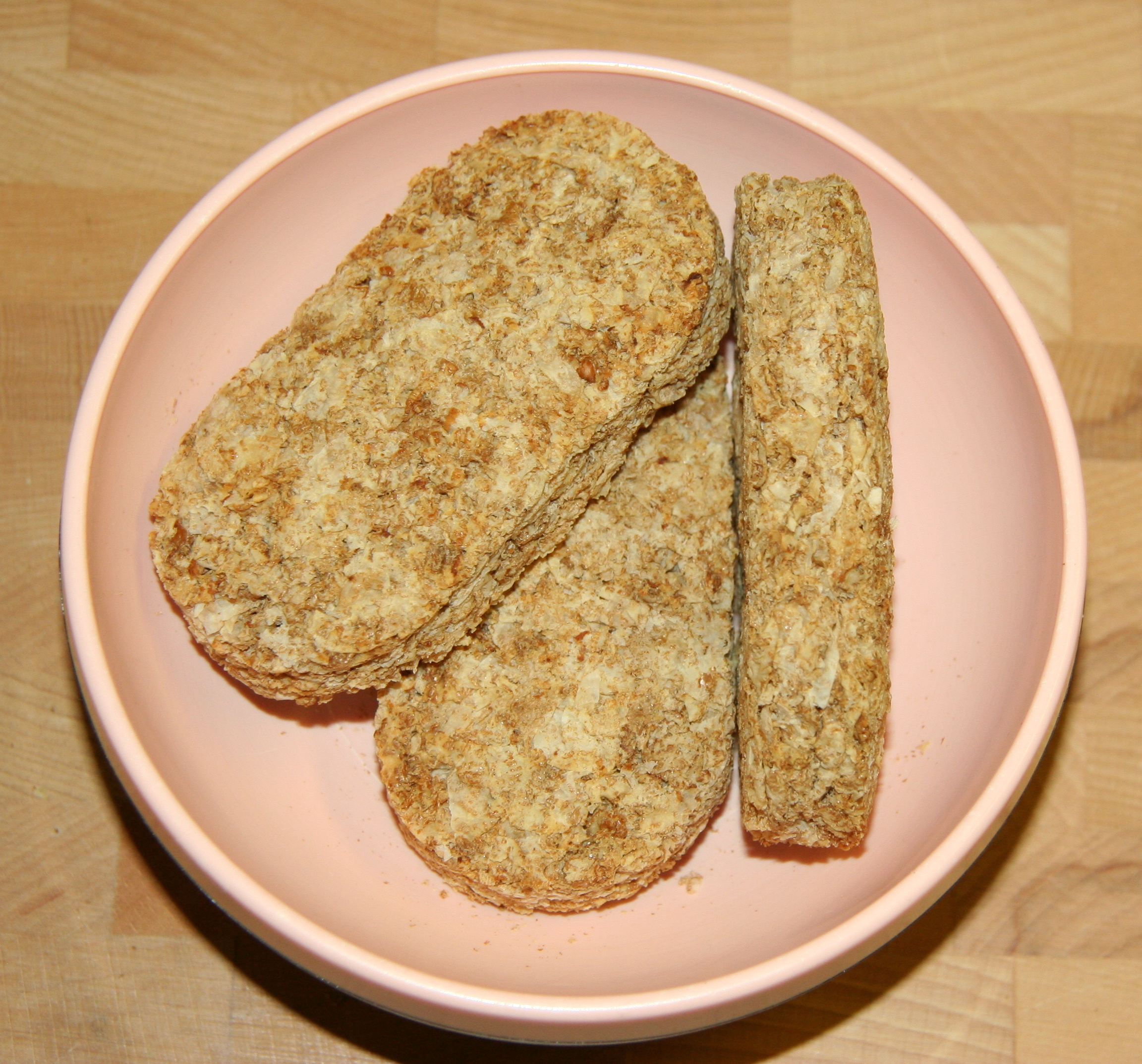 3 biscuits of Weetabix breakfast cereal, dry, in a pink Melmac bowl